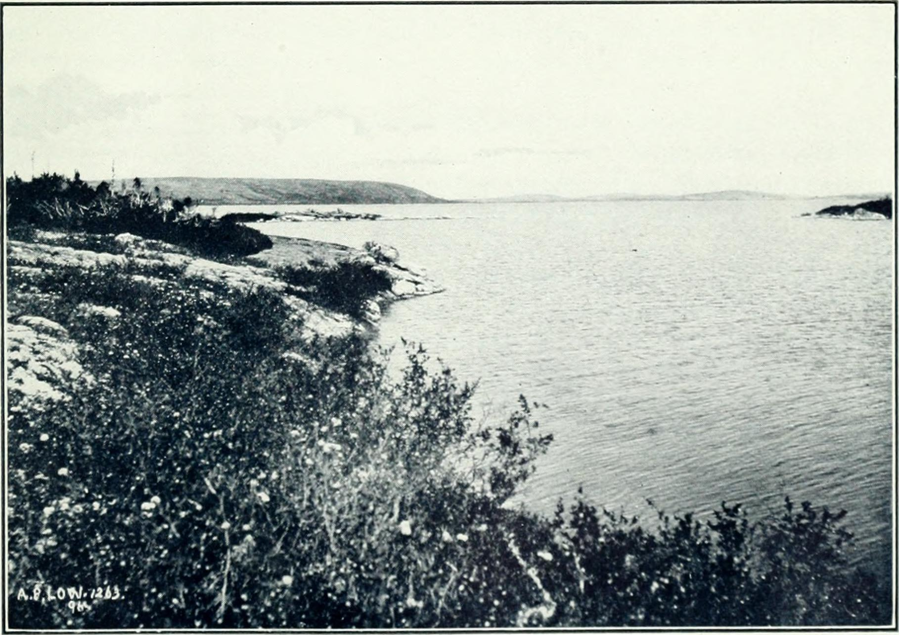 Image caption in the book: View of Seal Lake - Five Miles East of Narrows, Looking east. Annotation on the image: "A.P.Low.1263.96." Title: Extracts from reports on the district of Ungava, recently added to the province of Quebec under the name of the territory of New Quebec Year: 1915 (1910s) Authors: Québec (Province). Bureau of Mines Subjects: Publisher: Quebec, Printed by E. Cinq-Mars, 1915 Text Appearing Before Image: UMIACK OF WOMENS BOAT—Wakeham Bay. Text Appearing After Image: VIEW OF SEAL LAKE-Five Miles East of Narrows, Looking East. COUNTRY BETWEEN HUDSON BAY AND CLEARWATER LAKE 153 of the cold waters of James Bay. A drawback to settlement exists in the swampvnature of large areas having- a clay subsoil, but this might easily be overcomein many places by drainage to the rivers, and a large tract of country made fitto support a considerable population when it is rendered accessible by railways.A delay of a week at Moose Factory was occasioned by the repairs neces-sary to the large Collingwood fishing-boat belonging to the Survey which hadbeen stored there in 1892. The boat was loaded with two tons of provisions andoutfit, and carried the two large wooden canoes on deck, besides a crew of sixmen, and consequently was rather low in the water for safety or comfort. Thetrip up Hudson Bay lasted from the 14th to the 29th of June, and the course fol-lowed was across Hannah Bay to Point Comfort, thence north-east passing tothe east of Charlton and Strutton islan